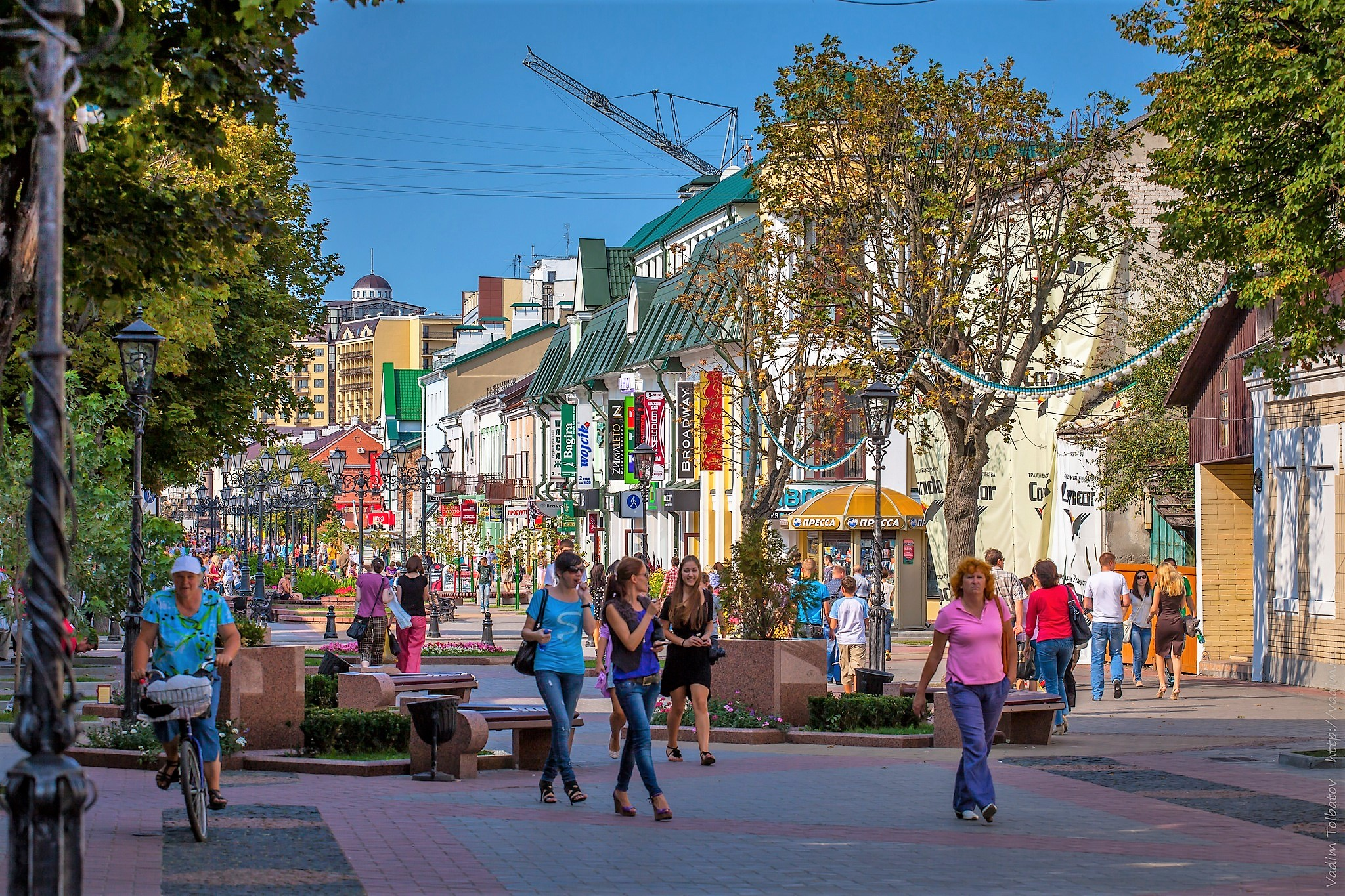 Center of Brest, Sovetskaya str.